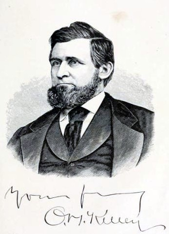 Drawing, with signature, of Oliver Hudson Kelley, a founder of The Grange